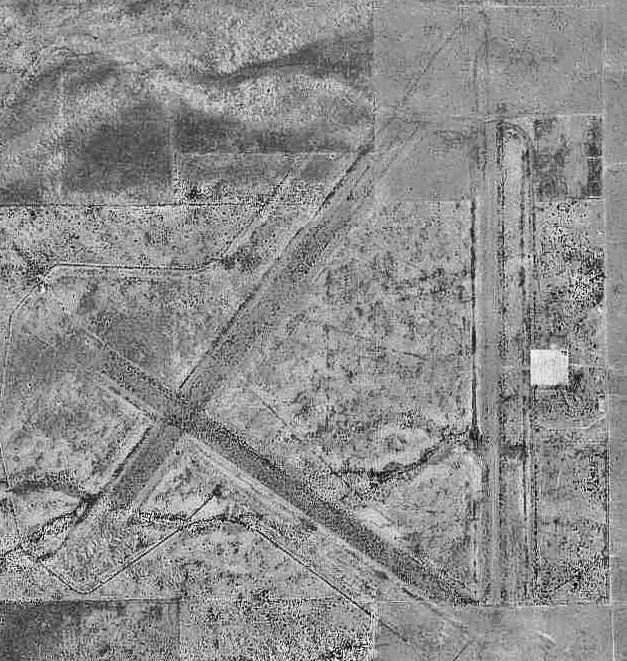 USGS digital orthophoto of Hereford Army Airfield in Hereford, Arizona, United States